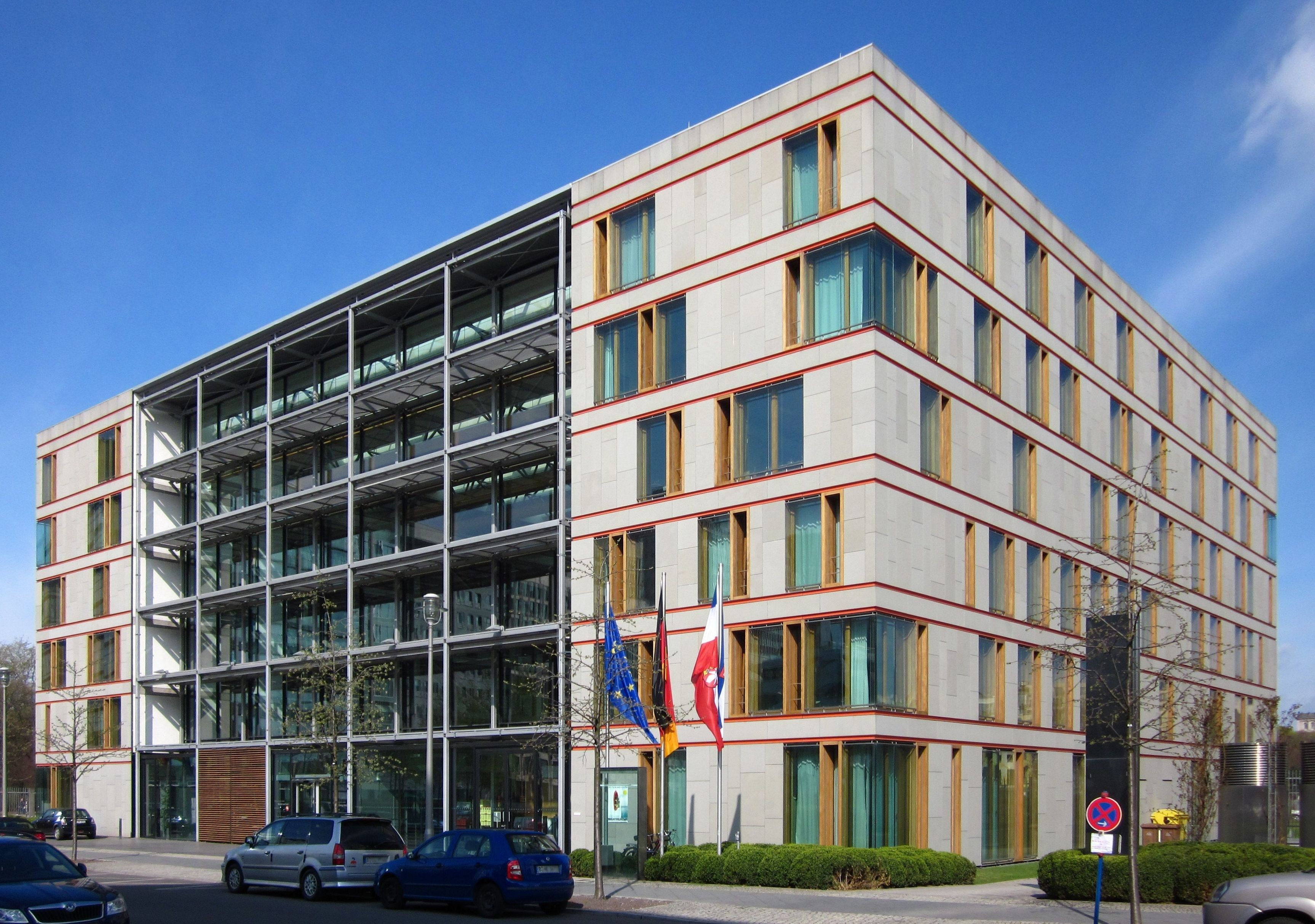 Shared building of the representations of the states of Lower Saxony (left half) and of Schleswig-Holstein (right half) to the German federal government, In den Ministergärten 8-10, in Berlin-Mitte. The building was constructed from 1999 to 2000 to a design by the Cornelsen & Seelinger and Seelinger & Vogels from Darmstadt.